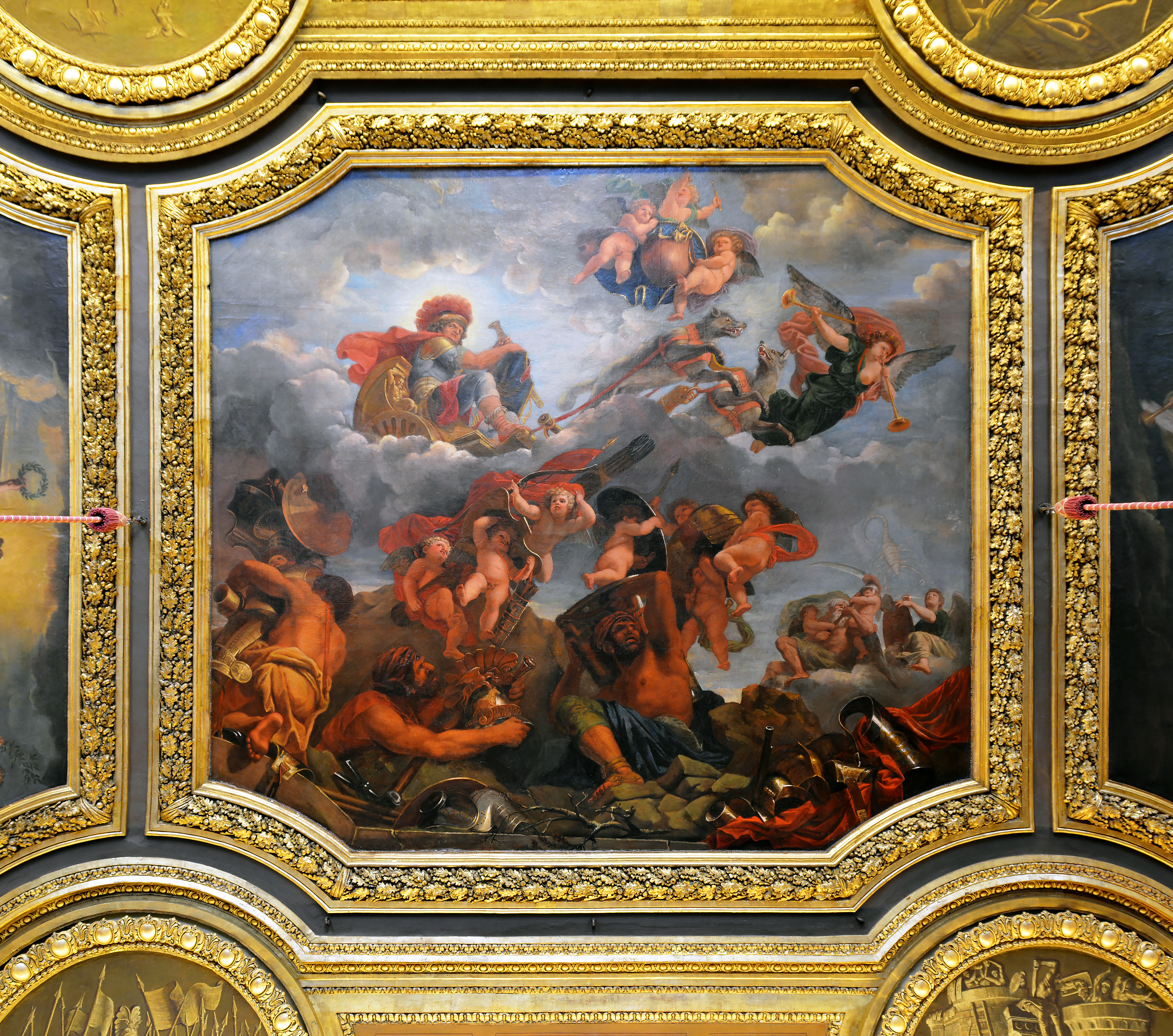 Ceiling of Salon de Mars du Château de Versailles